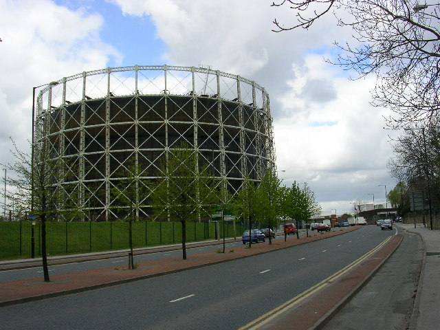 Gasholder, Bradford, Manchester. This gasholder is located close to the City of Manchester Stadium which was, in part, built on the site of an old gasworks. taken from SJ 868 991.